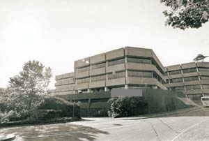 Berkshire County Hall